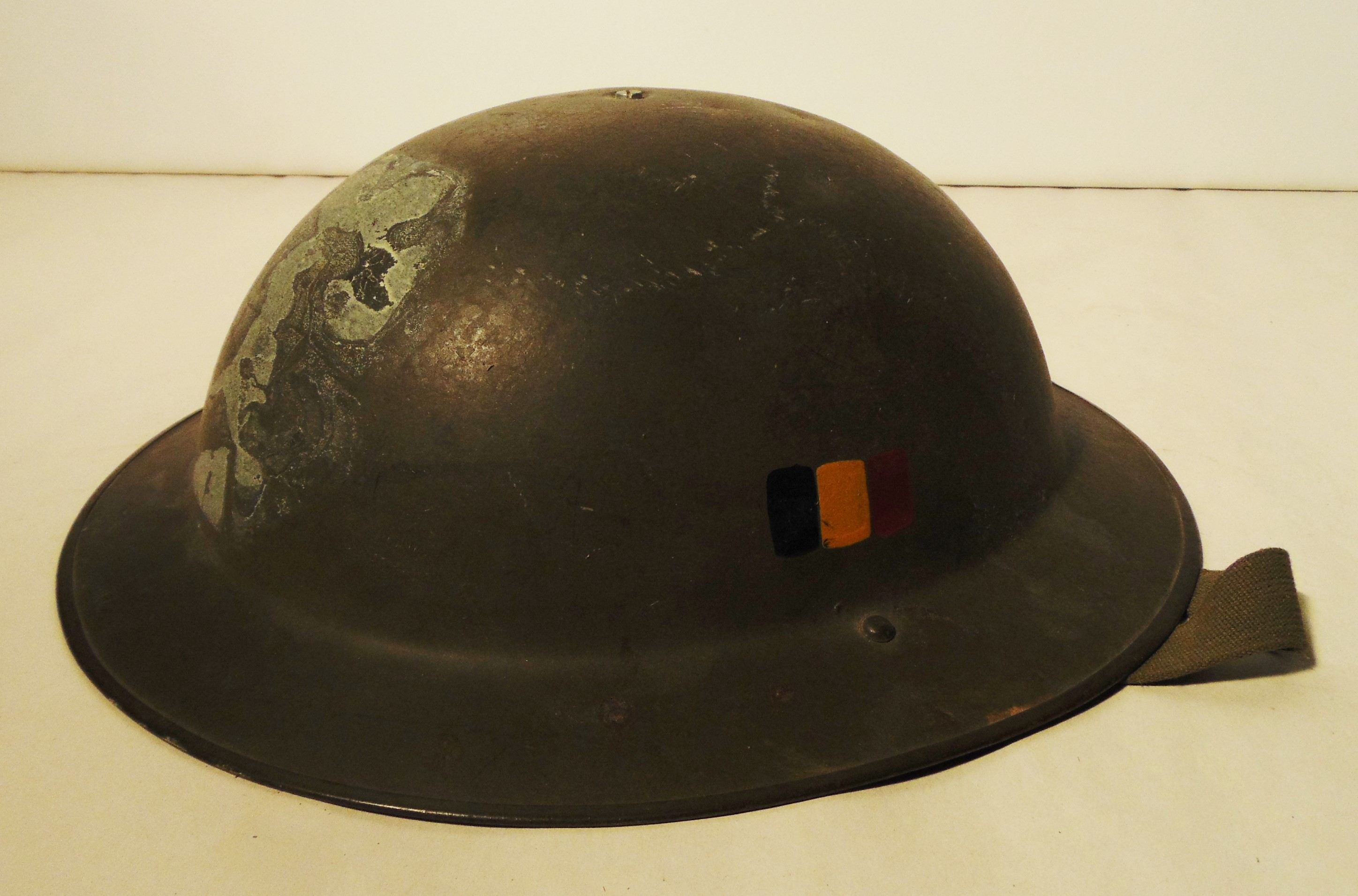 Belgian Mk.II Steel Helmet modelled on the British Mk.II Helmet, produced after World War II. Photographed in the collection of the National Liberation Museum 1944-1945, the Netherlands, archive number 09.018